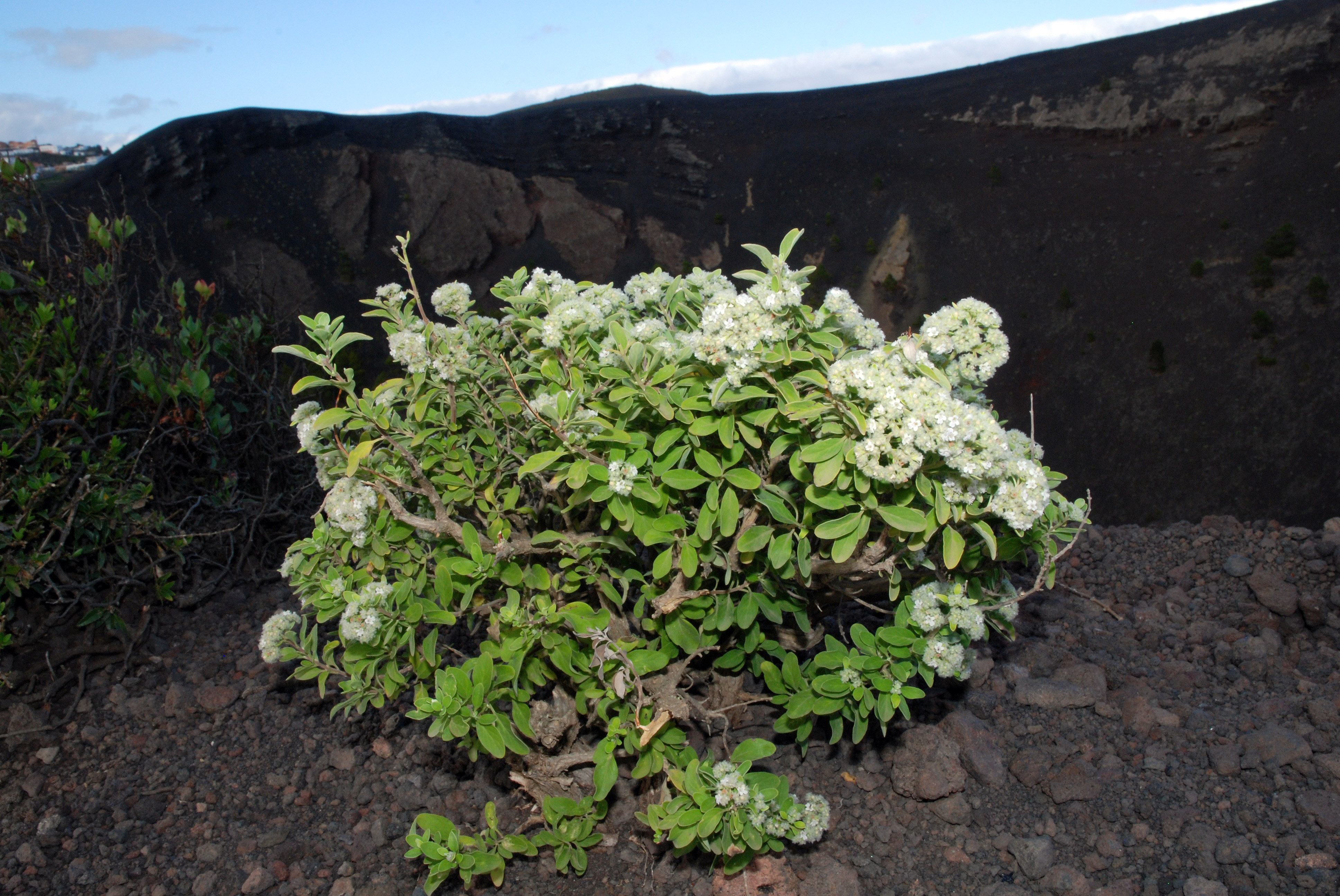 Habitus of Bystropogon origanifolius, Volcan San Antonio, La Palma, Spain